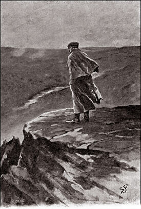 Illustration of the Sherlock Holmes adventure The Hound of the Baskervilles.